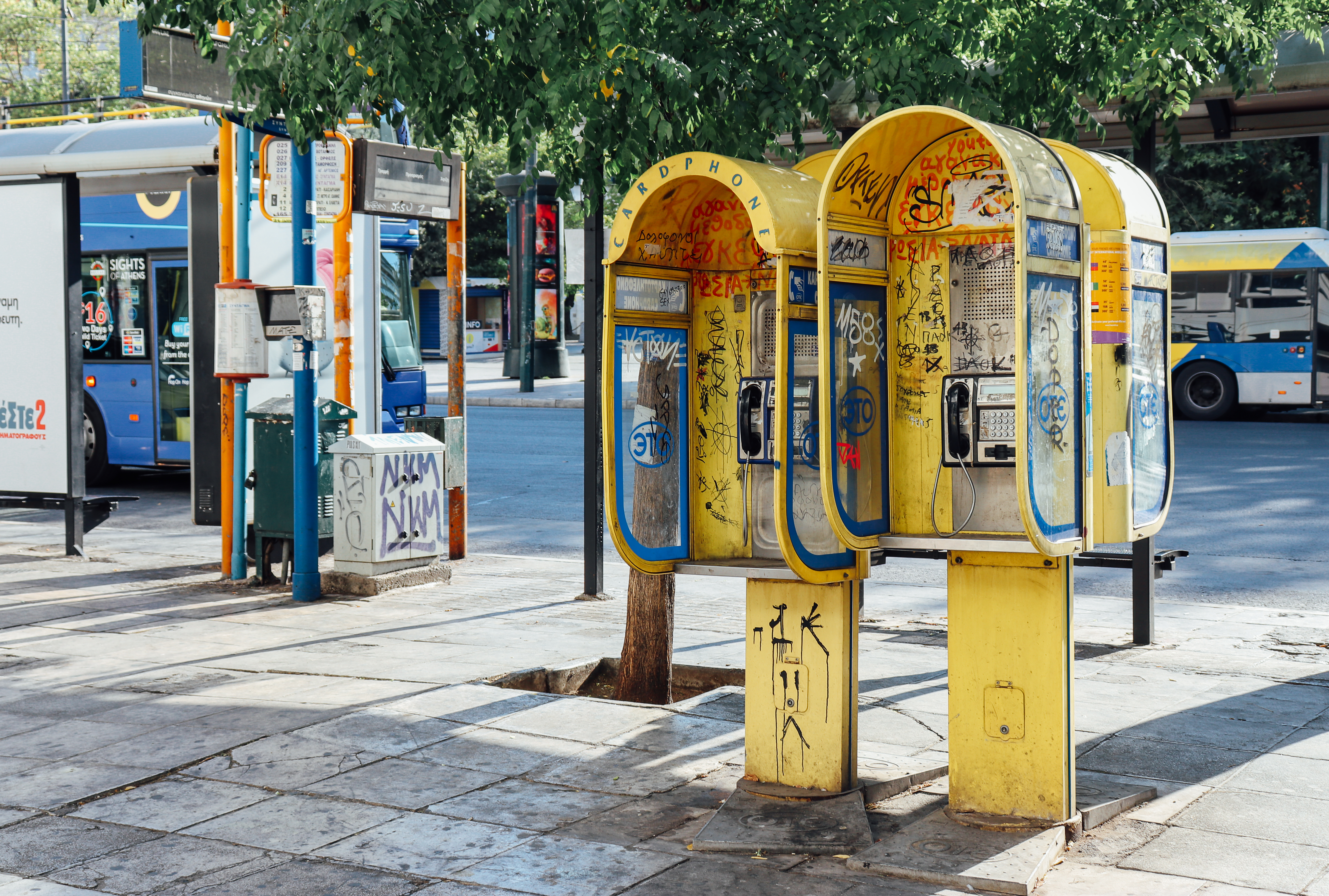 Telephone booths in Athens